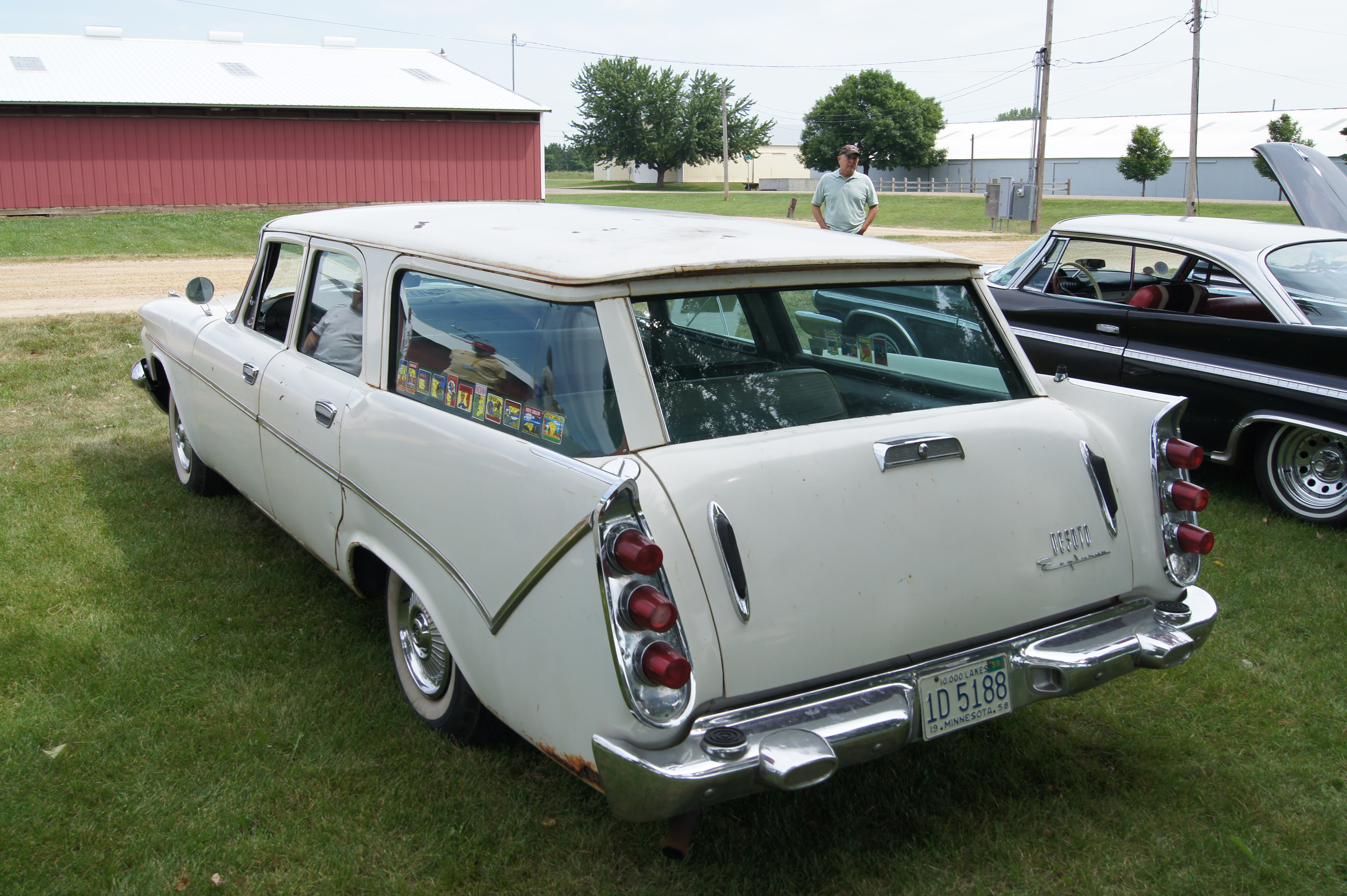 1st Combined Convention 28th Annual National DeSoto Club Convention & 44th Annual Walter P.Chrysler Club Convention July 17 - 21, 2013 Lake Elmo, Minnesota Click link below for more car pictures